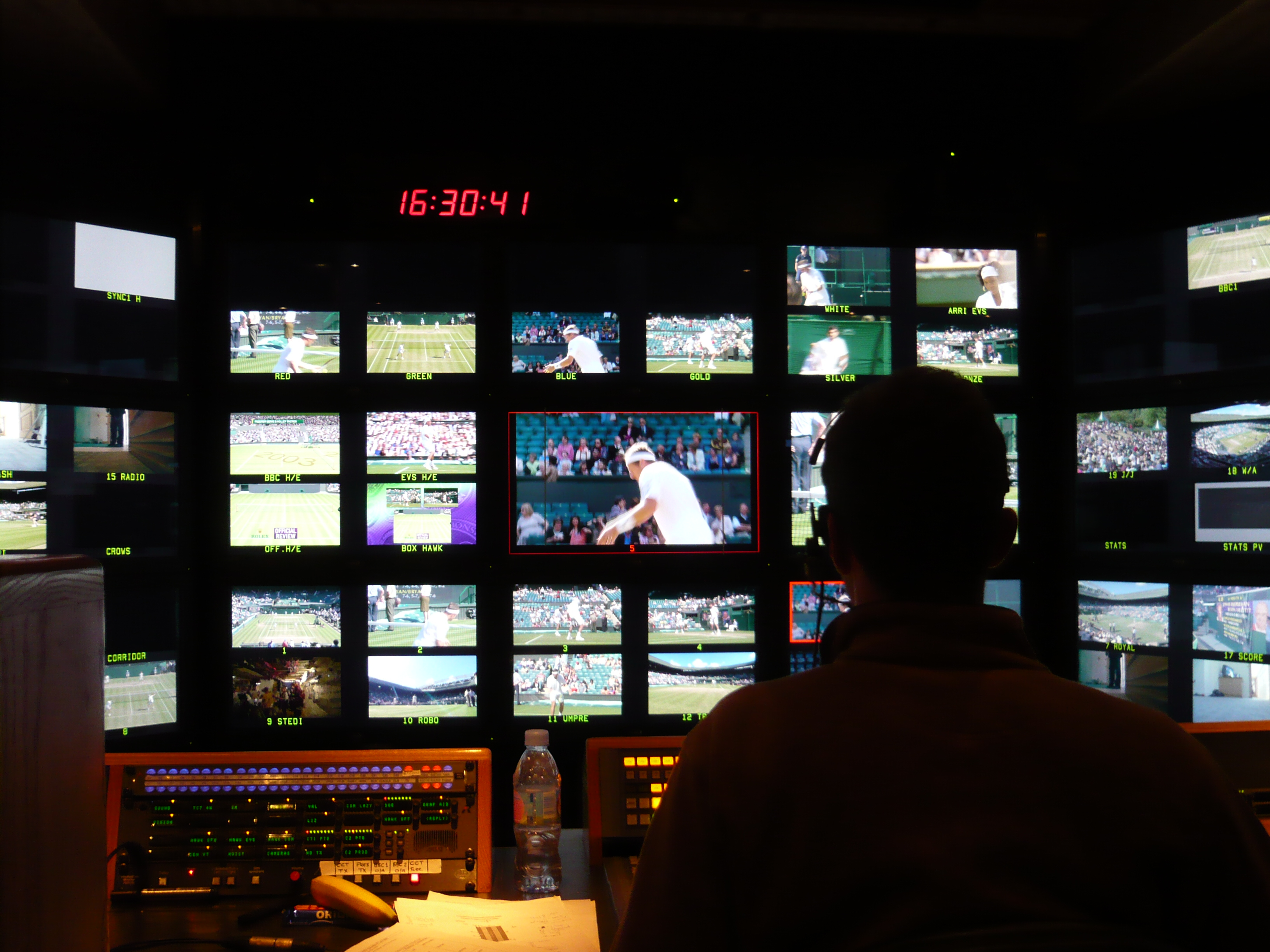 The production gallery on Arena Television's OB7 at the Wimbledon Tennis Championships